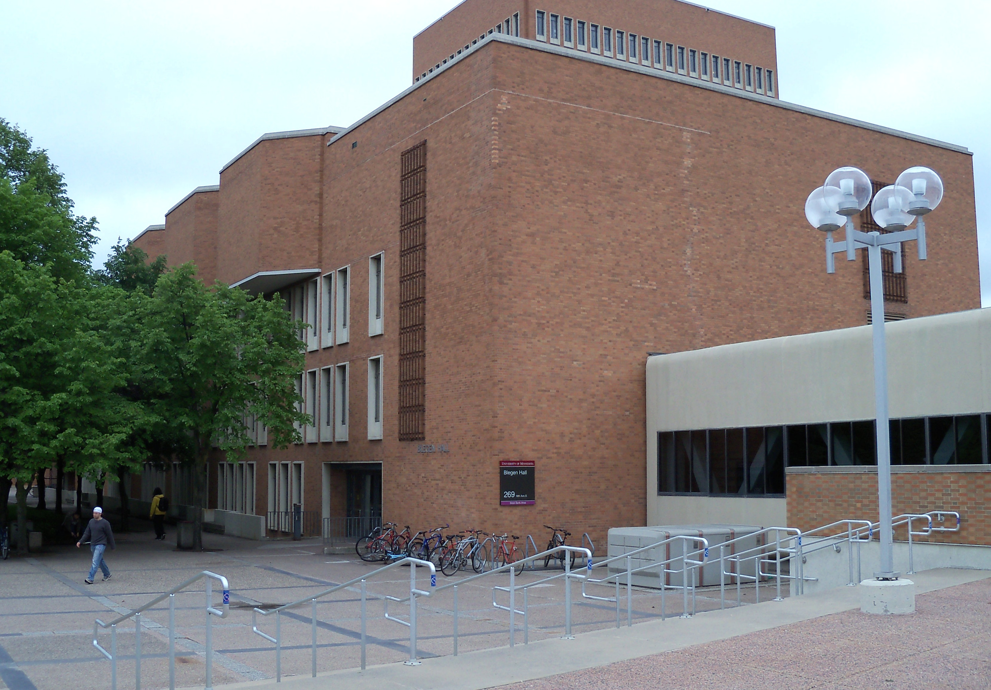 Blegen Hall on the West Bank of the Minneapolis campus of the University of Minnesota in the USA.